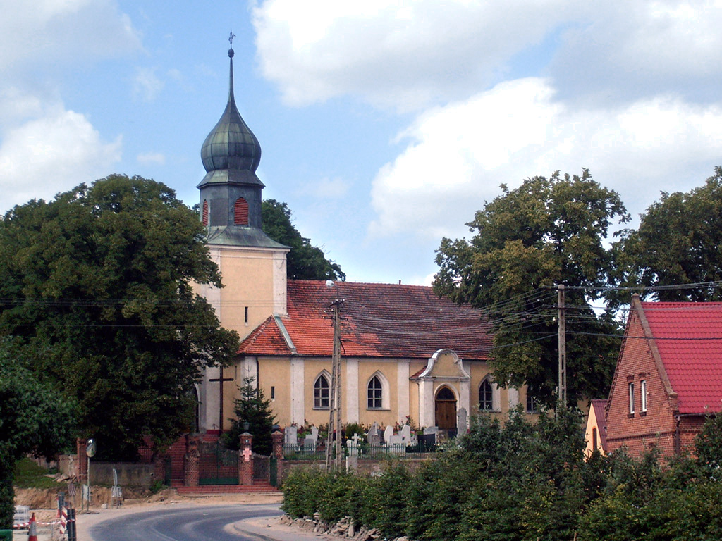 The church in Gostycyn, Poland